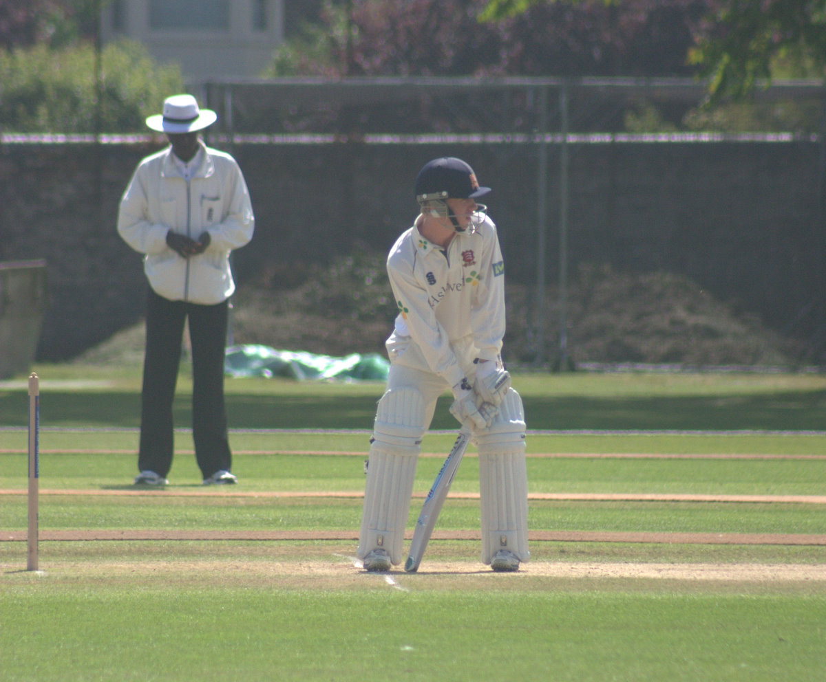 Adam Wheater playing for Essex against Cambridge UCCE at Fenner's cricket ground in Cambridge on 13 June 2009.